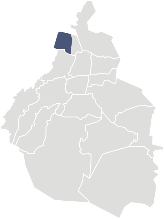 Map of the Thirth Federal Electoral District of the Federal District, México.